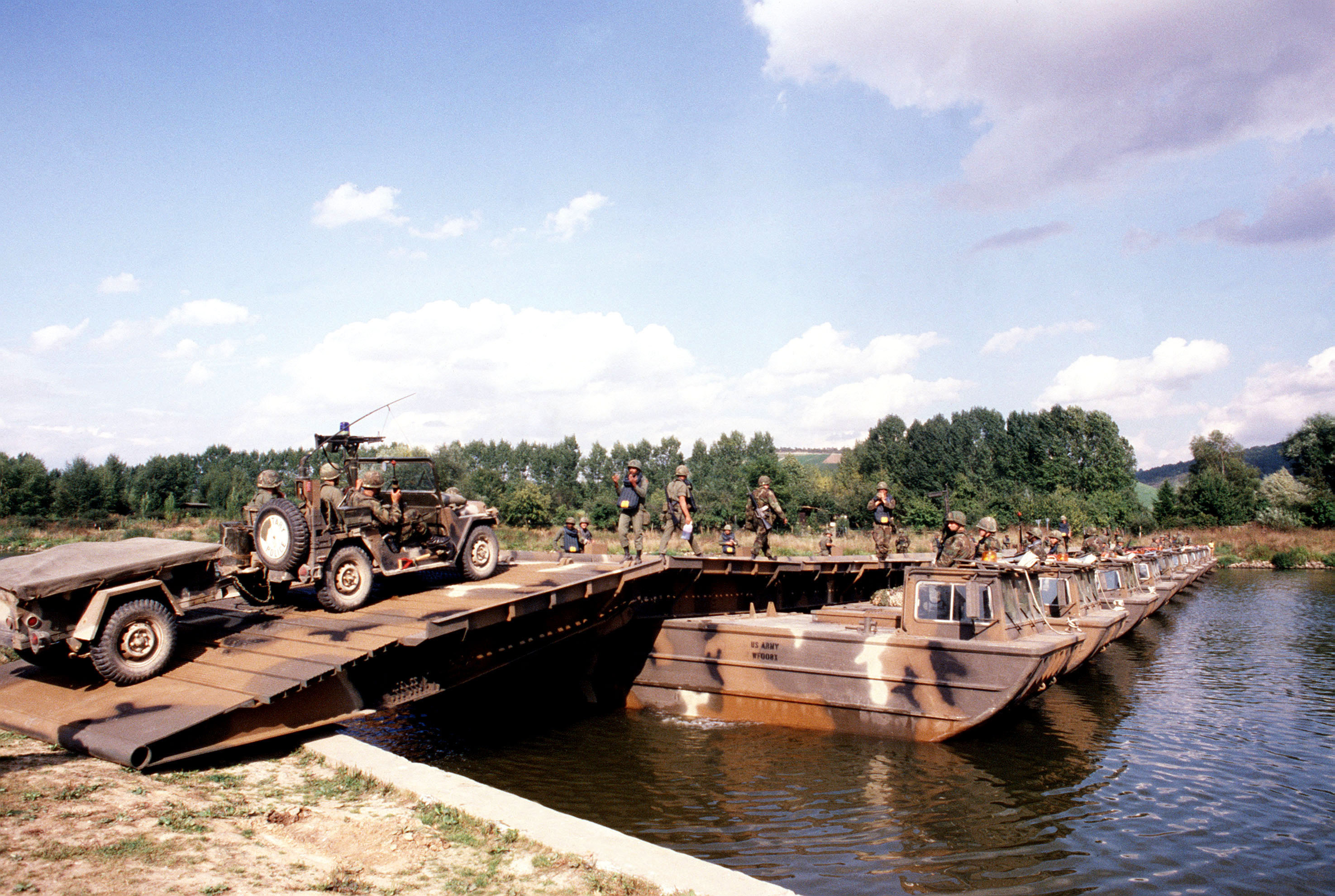 Mobile Floating Assault Bridge built across the Main River by 1st Engineer Battalion, 1st Infantry Division during exercise Reforger '82